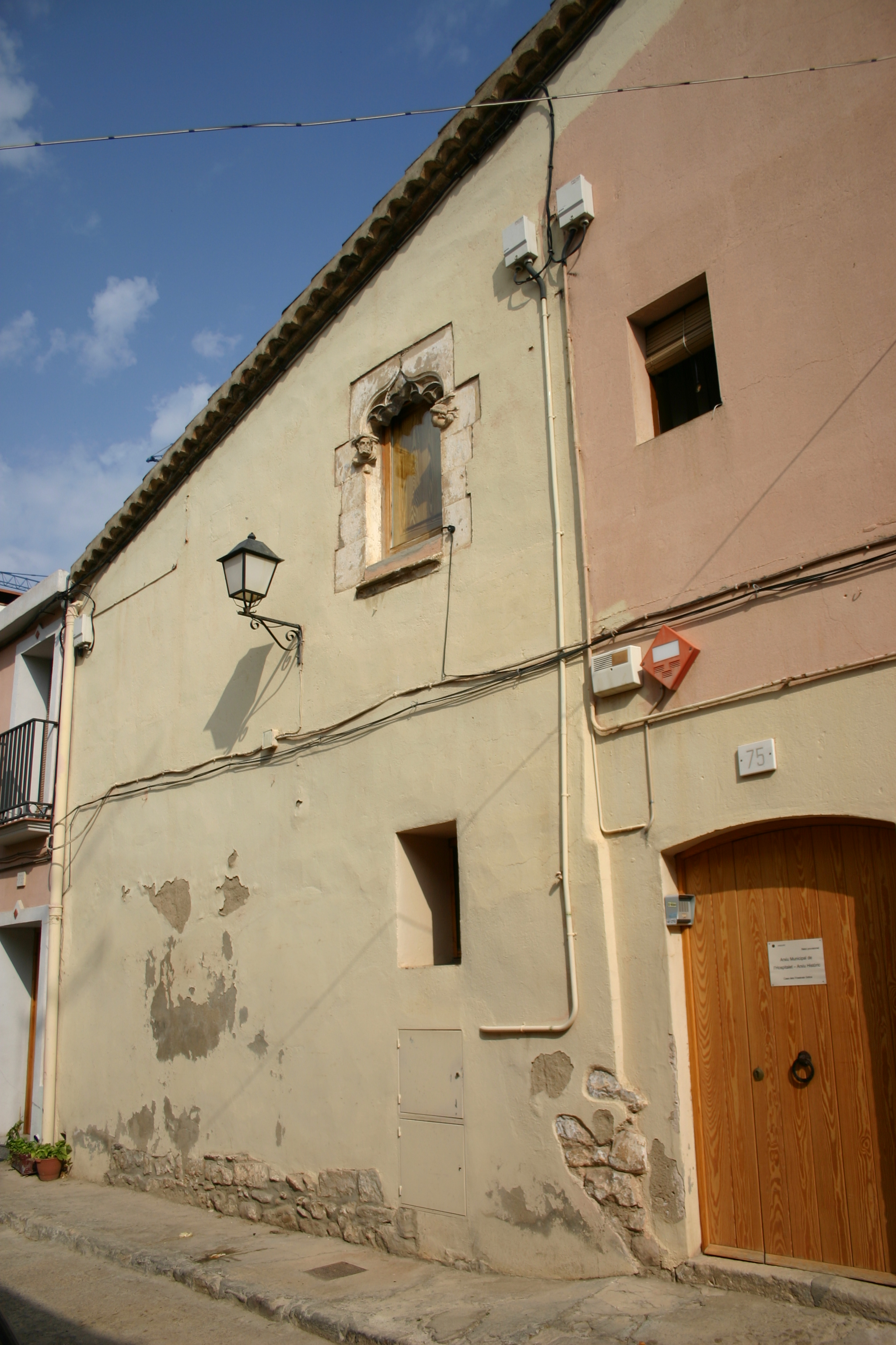 Xipreret street